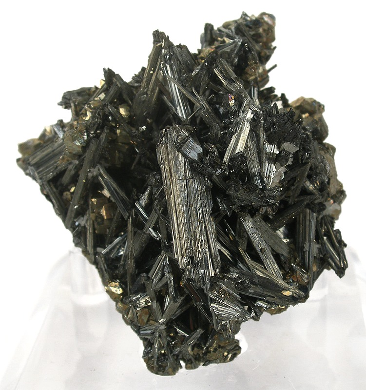 Jamesonite Locality: Concepción del Oro, Municipio de Concepción del Oro, Zacatecas, Mexico (Locality at ) Size: miniature, 5.0 x 4.8 x 4.7 cm Jamesonite Jackstraw crystals of splendent, acicular jamesonite, to 2.3 cm in length, are associated with modified cubes of brassy yellow pyrite reaching .25 cm across. This is a major example of the species from a small find that few people are aware of, I have found. I am told it was a small pocket in the mid-1980s, and I have seen only a handful turn up as old collections recycle. These are superior to other Mexican jamesonite specimens, and most worldwide jamesonite for that matter as well, for their robust crystals and bright metallic lustre. This piece has a rich smothering of splendent, metallic-gray crystals of jamesonite to 2.3 cm across, very important for the species. Ex. Dr. Miguel Romero Collection.